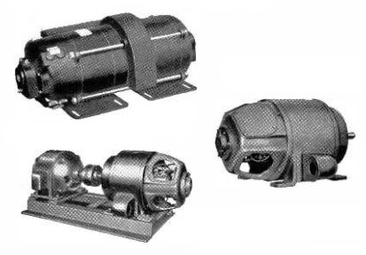 Three amplidynes made by General Electric Co., from an advertisement in a 1951 magazine. Top left - 1 kW amplidyne motor-generator Bottom left - 3 kW amplidyne motor-generator Right - 5 kW amplidyne generator An amplidyne is a rotating machine that functions as an amplifier. It consists of an electric motor turning a DC generator. The electric signal to be amplified is applied to the generator's field windings. The output voltage is proportional to the field current. Amplidynes are used in power industrial servo and control systems.